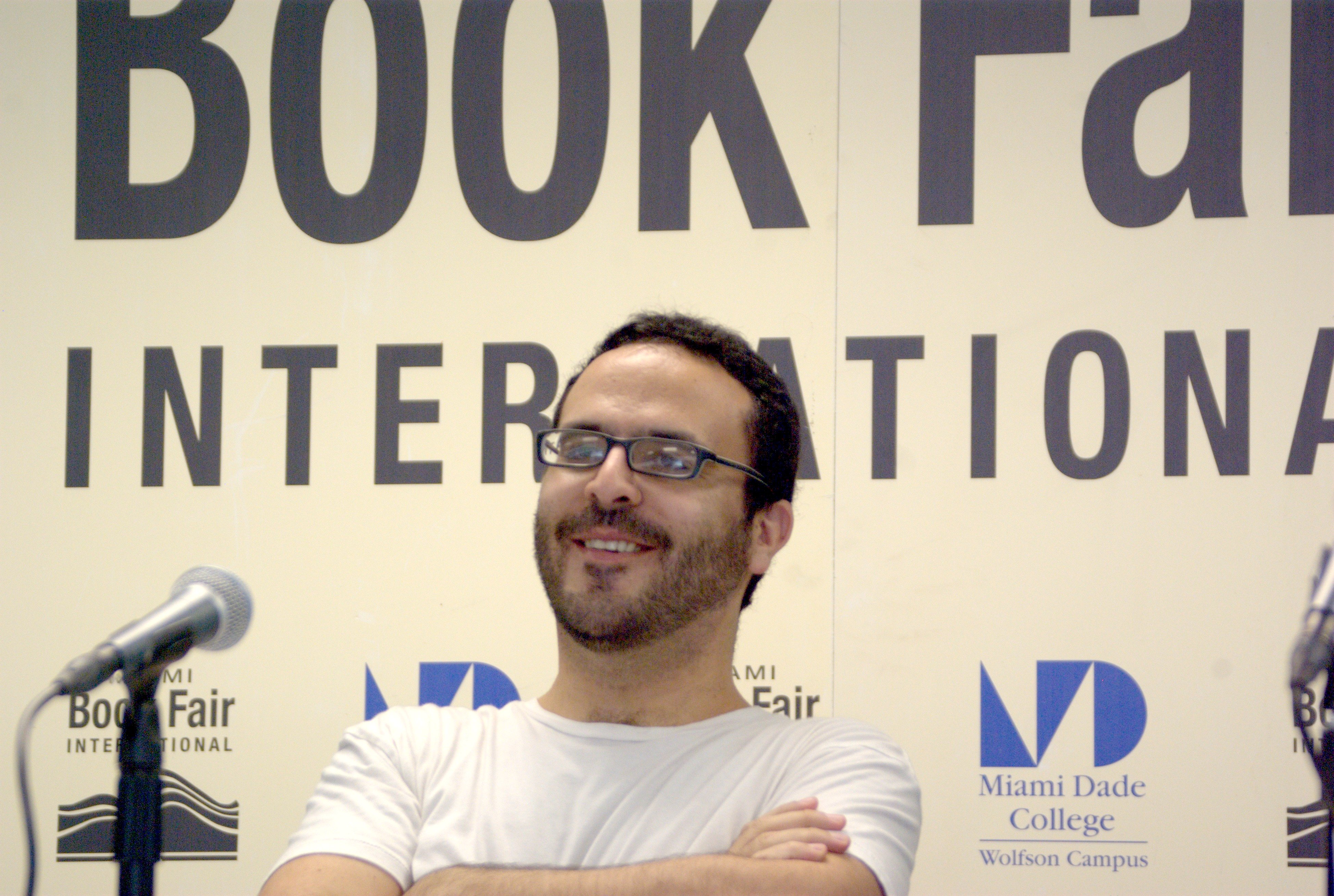 Bolivian writer Rodrigo Hasbun at the Miami Book Fair International 2011